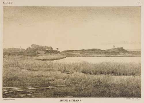 Hunenschans Circular rampart near Uddel (Netherlands)